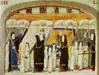 Patients and Nuns at the Hospital of Hotel Dieu in Paris